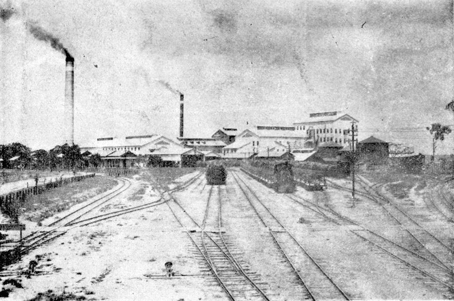 Wanri kōjō 灣裡工場(台灣製糖會社